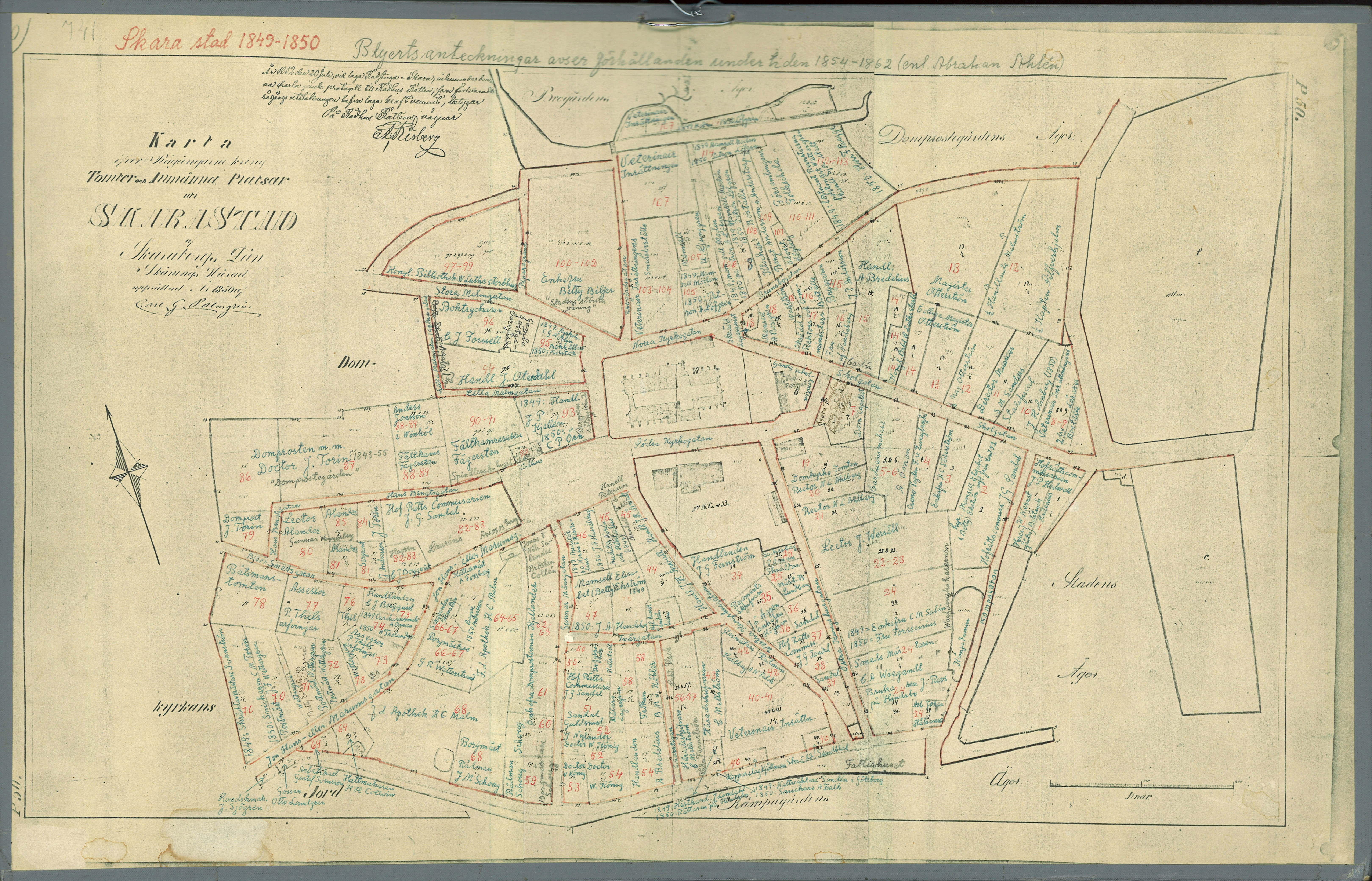 Copied map over the city of Skara, Sweden, in 1850, with handwritten notes of the owners of the lots in the period 1854 to 1862.